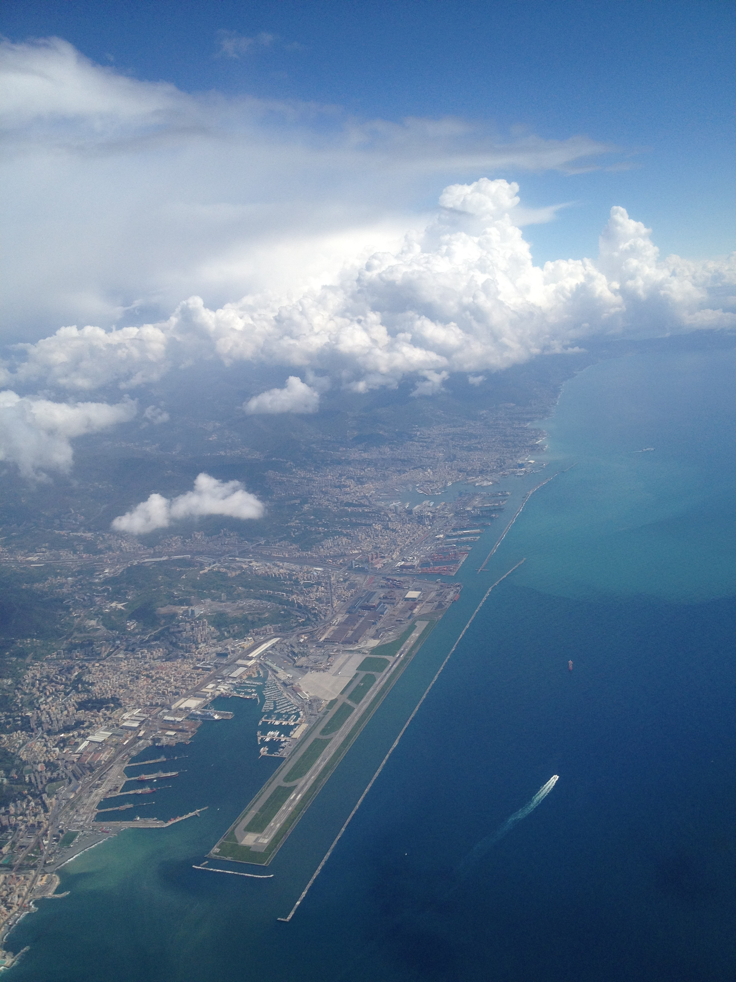 Genoa airport GOA "Cristoforo Colombo" seen from an airplane.